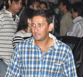 Indian cricketer Ajit Agarkar at the screening of the film Balak Palak in 2013.